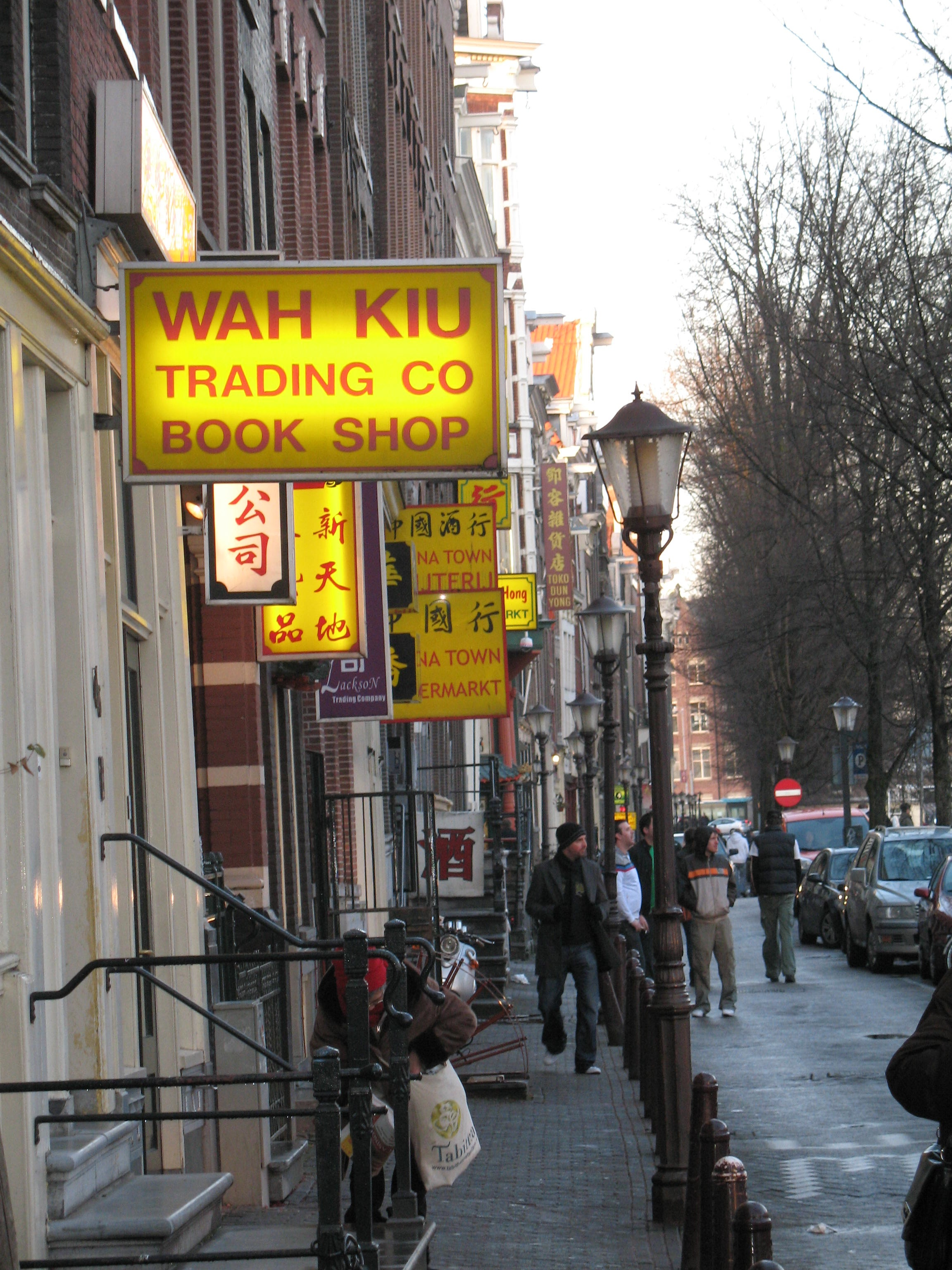 Chinatown Amsterdam